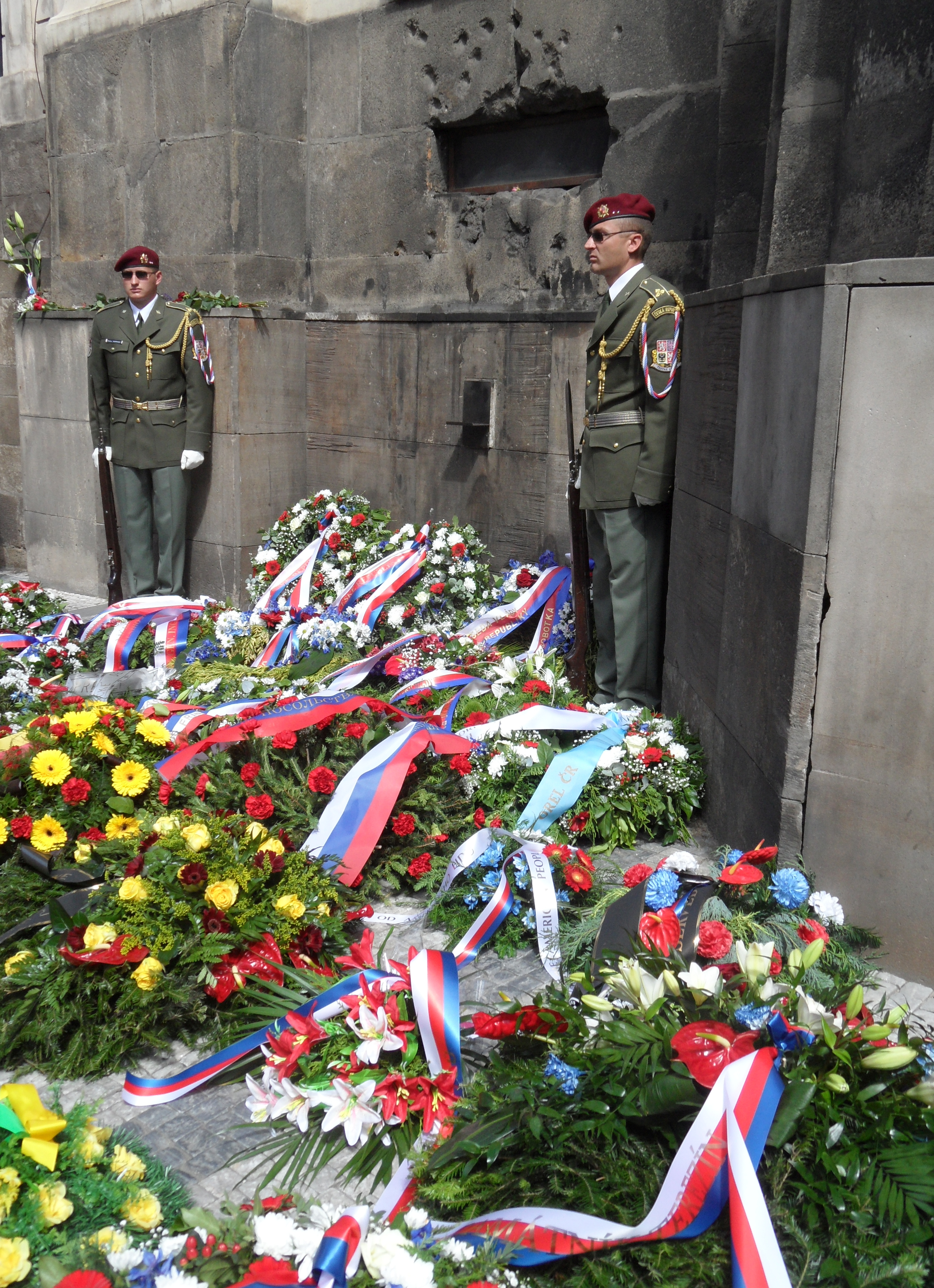 Prague, Resslova street: Memorial Act, 75th Anniversary of Operation Anthropoid. Prague, the Czech Republic.